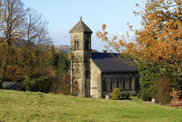 St Mary the Virgin, South Darley parish St Mary the Virgin parish church was built 1840. The parish includes the villages and hamlets of Wensley, Cross Green, Darley Bridge, Oker and Snitterton.